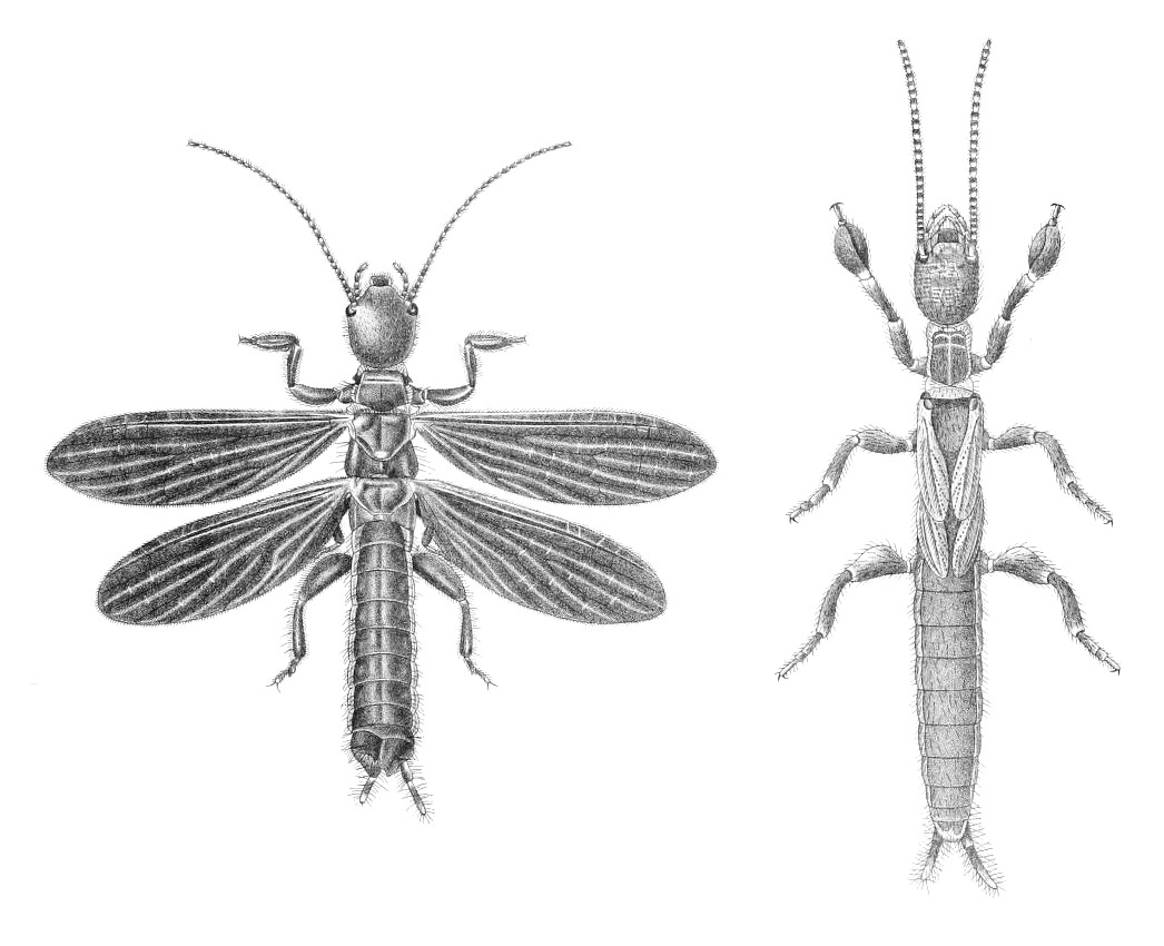 Embia major, Embioptera - male and male nymph